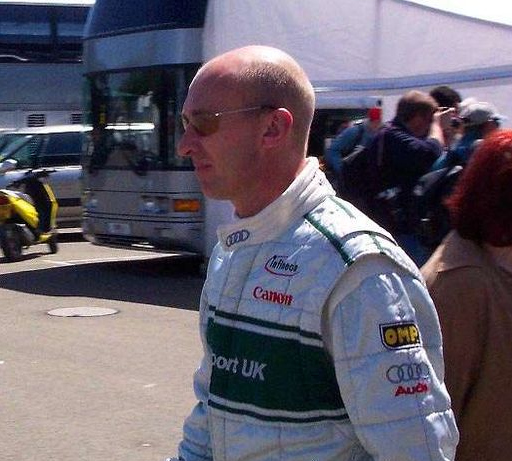 A picture of Perry McCarthy in the racing paddock, just after exiting his Audi R8 at the 24 Hours of Le Mans, 2003